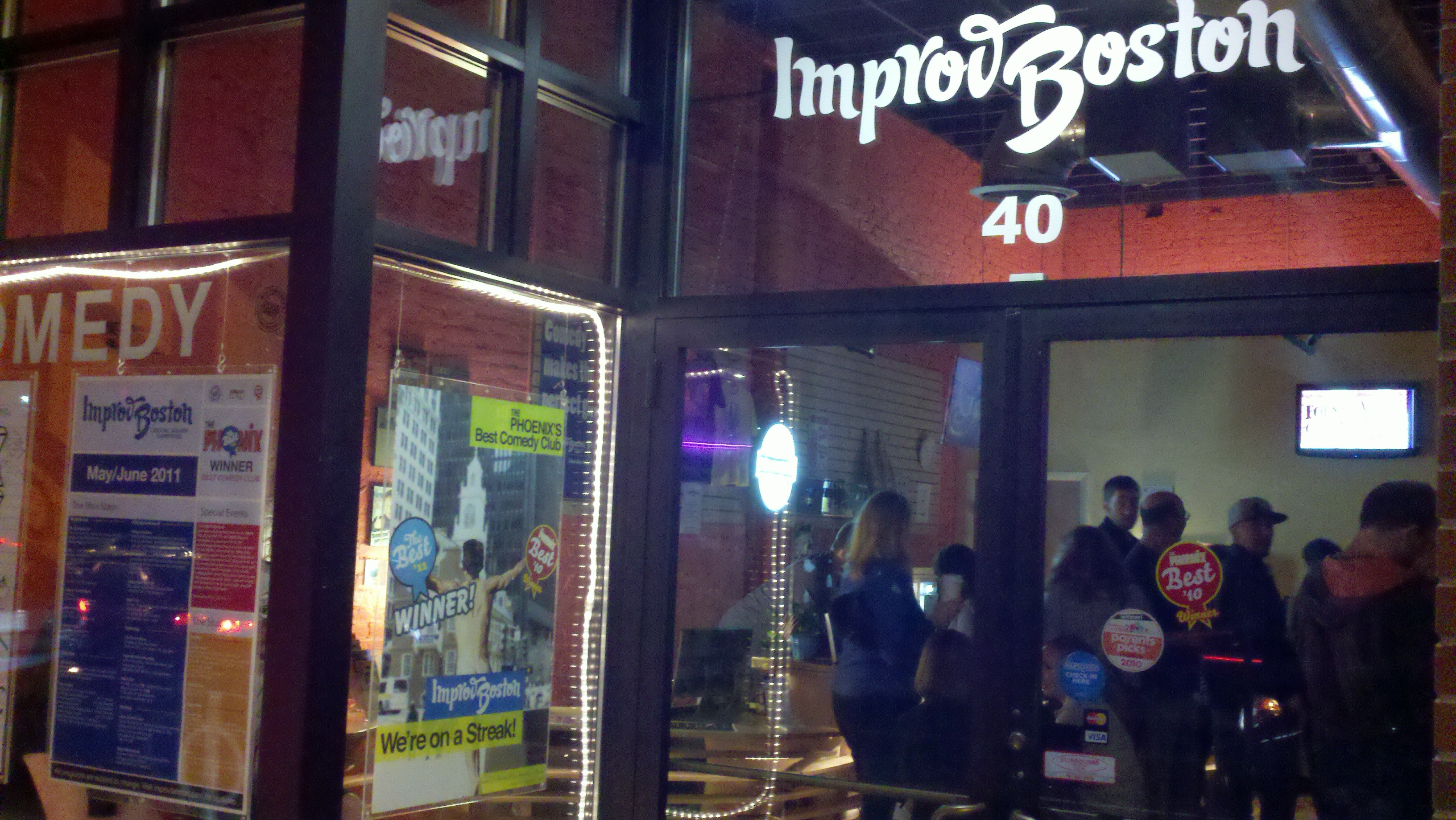 Shot from the front of IB's Central Square theater